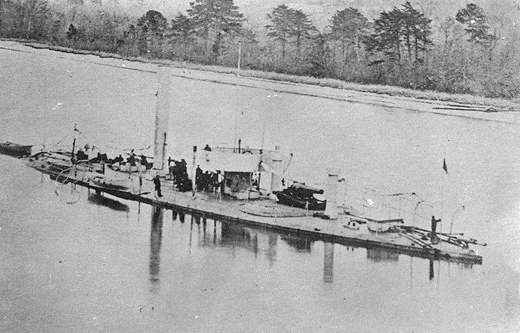 USS Casco (1864-1875) on the James River, Virginia, 1865, while serving as a spar torpedo vessel. Note the torpedo gear mounted on her bow.